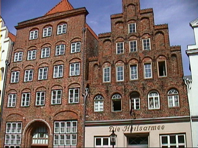 Typical buildings in Lübeck, Germany.